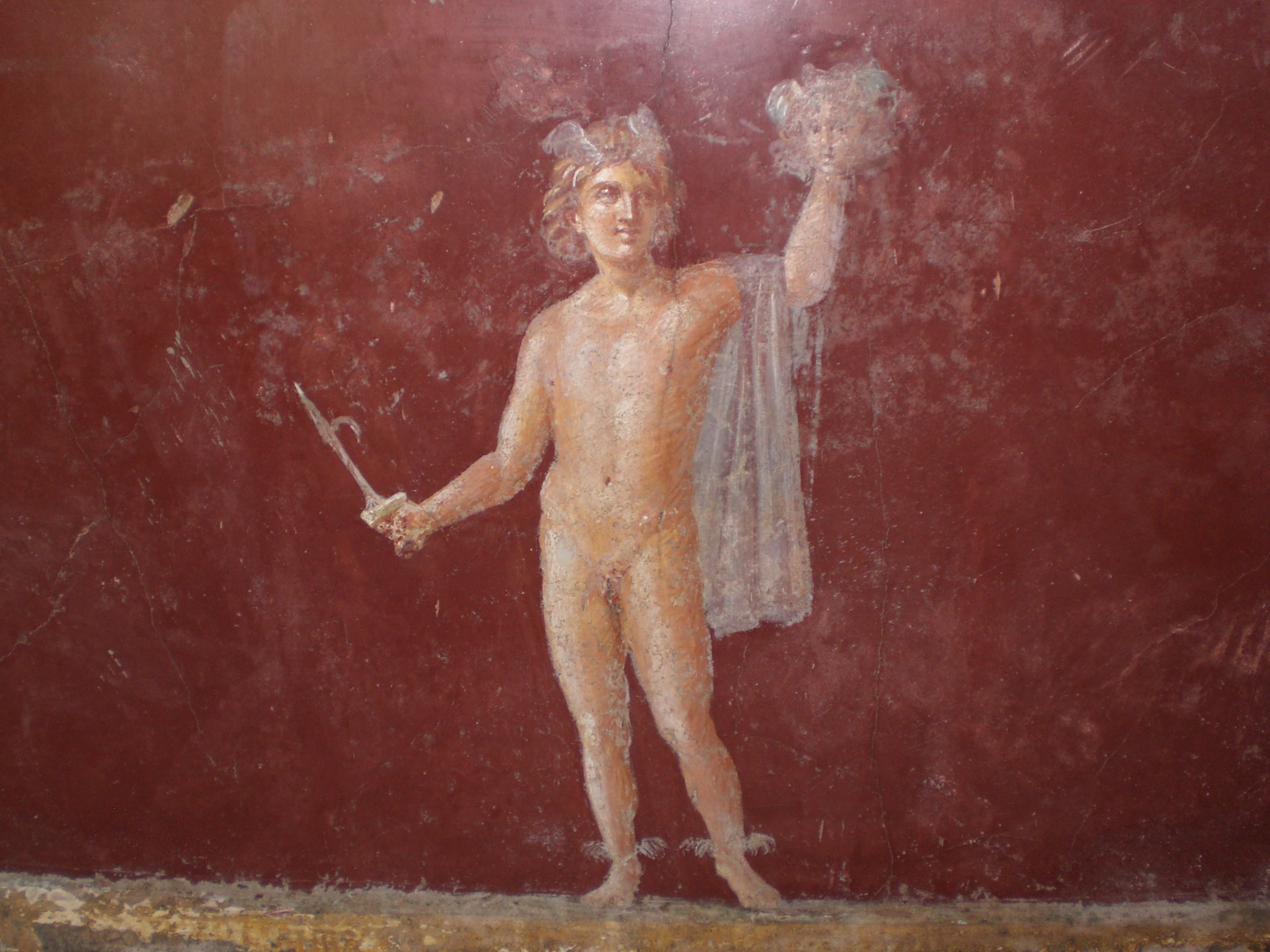 Fresco (Perseus) of Villa San Marco in Stabiae, Italy.